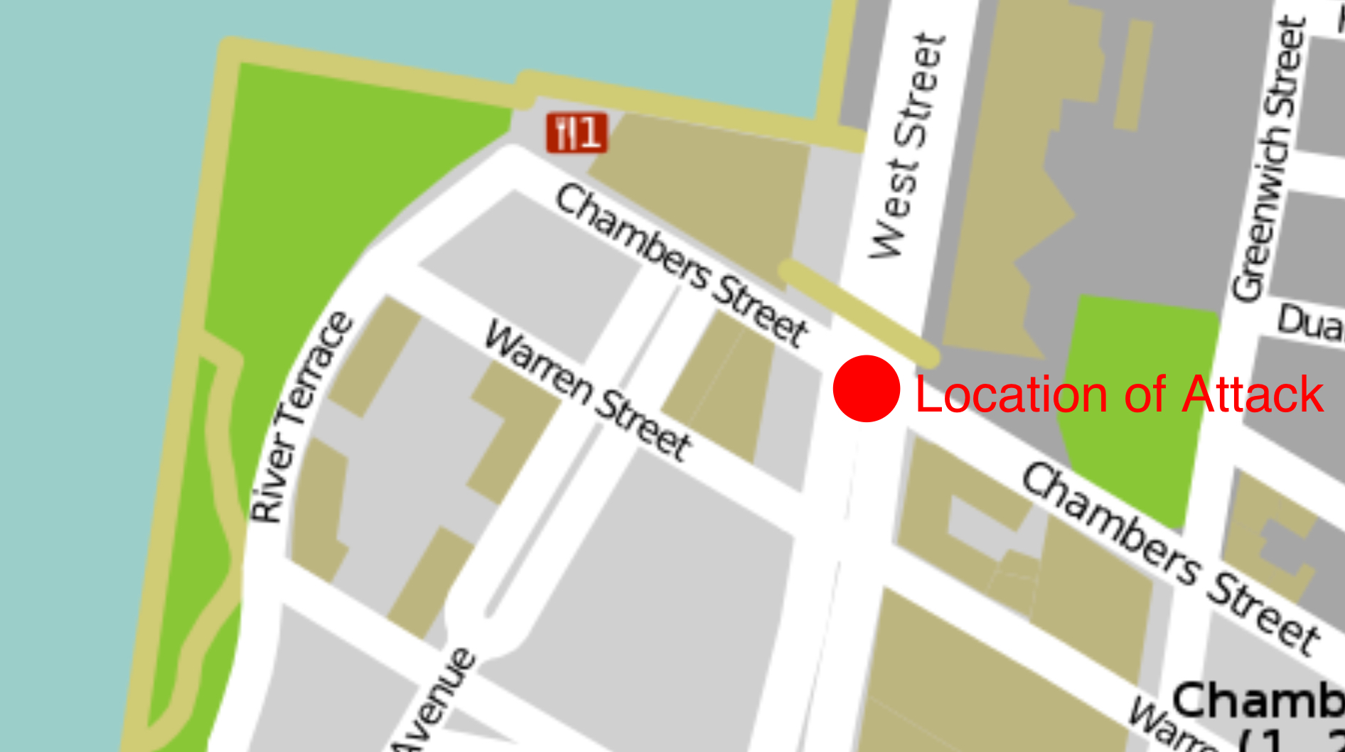 Mao for the terror attack in lower manhattan 2017